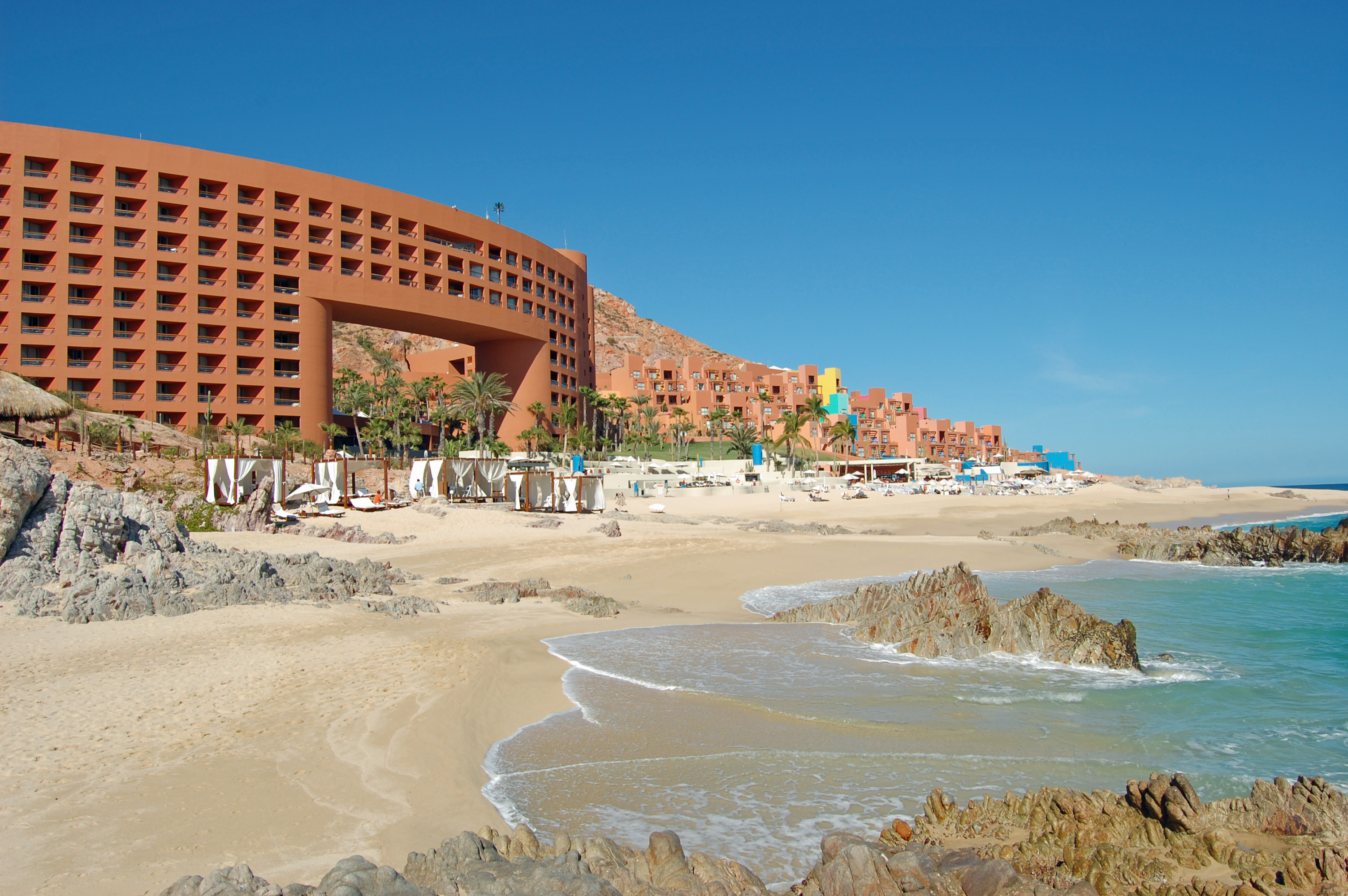 The Westin Resort & Spa Los Cabos in San Jose del Cabo